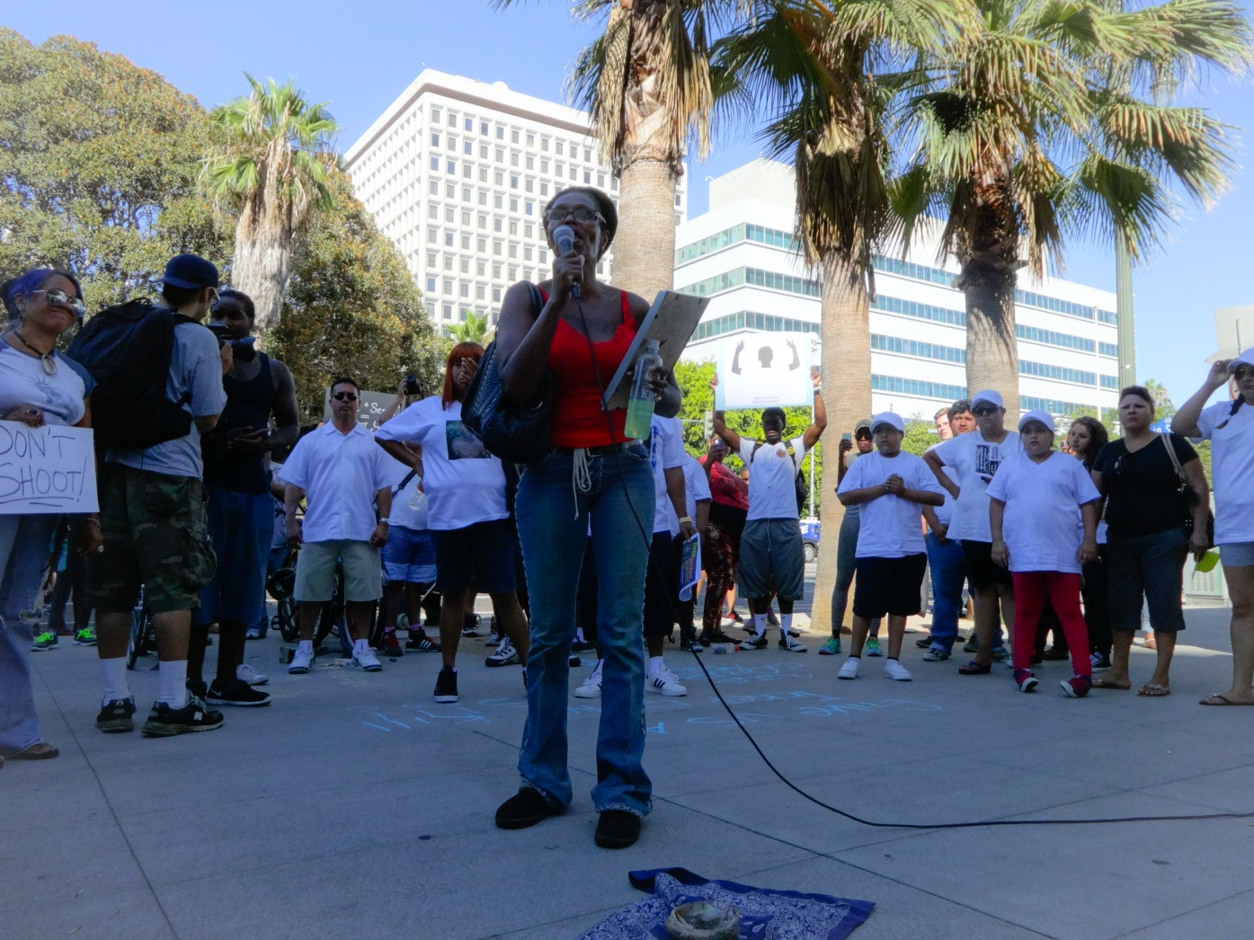 A protester speaking at the August 17, 2014 protest in Los Angeles over the deaths of Ezell Ford and Michael Brown